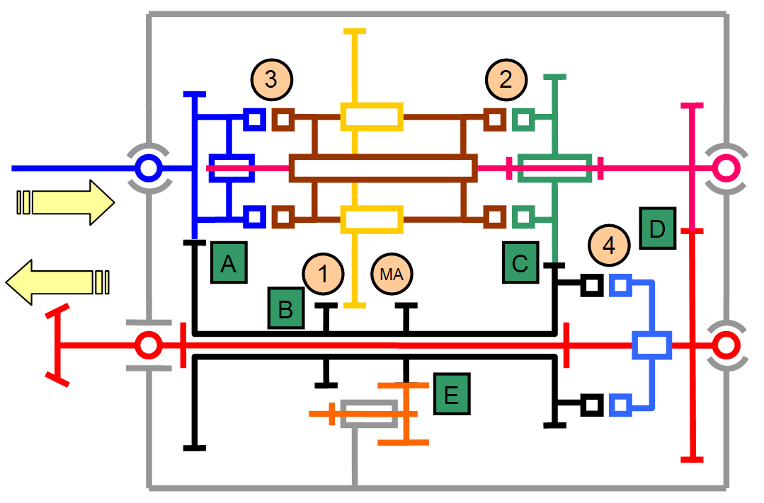 Citroën 2CV gearbox schema